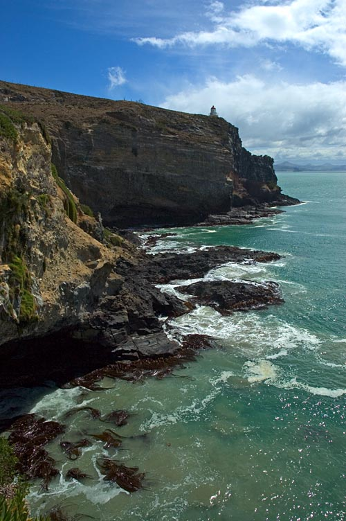 Taiaroa Head, Otago Harbour, Dunedin